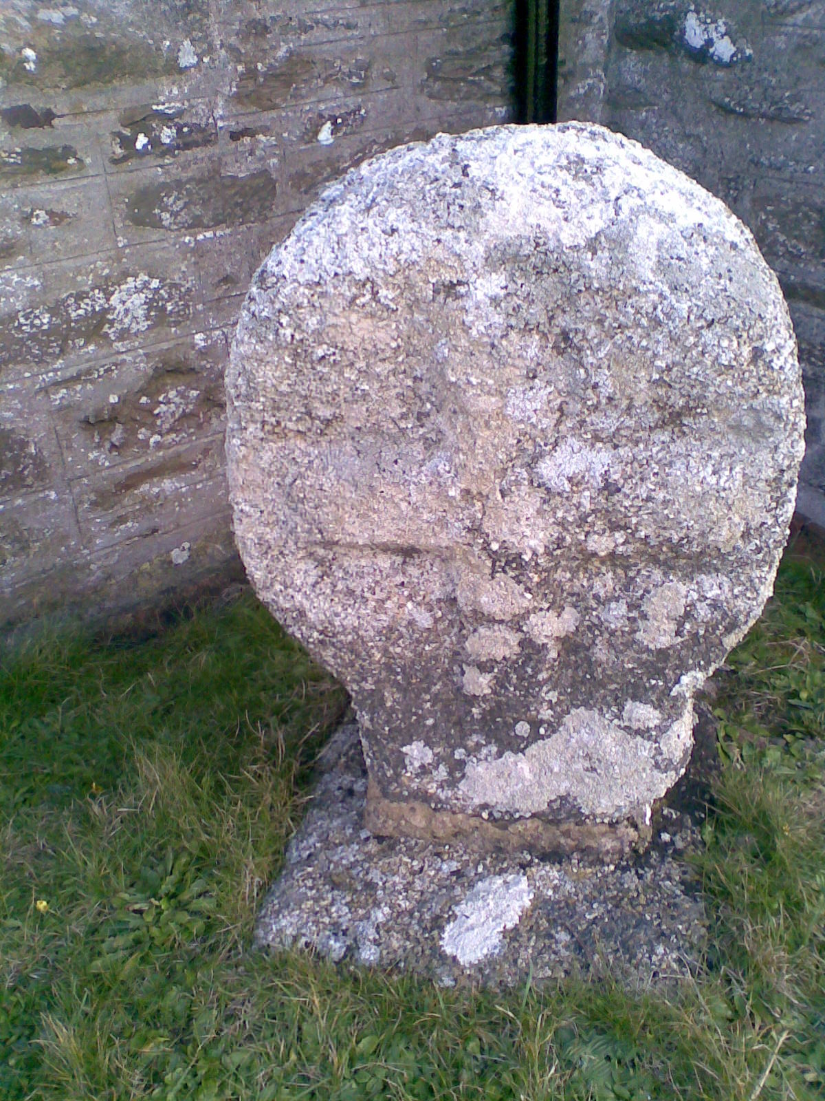 St. Winwaloe Church, Gunwalloe, Cornwall - Celtic Cross.